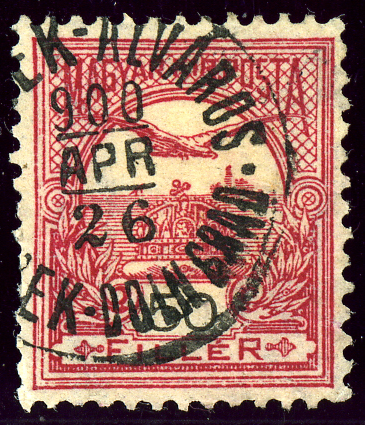 Kingdom of Hungary 50 fillér lake stamp (SG116), cancelled bilingual Eszék-Alváros - Doln. Grad in 1900, Croatia